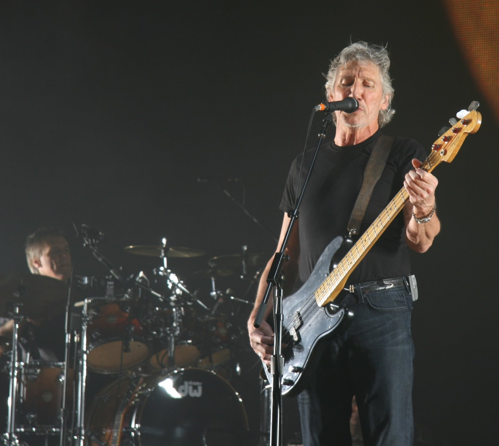 Roger Waters, O2 Arena, London,Sunday, May 18, 2008